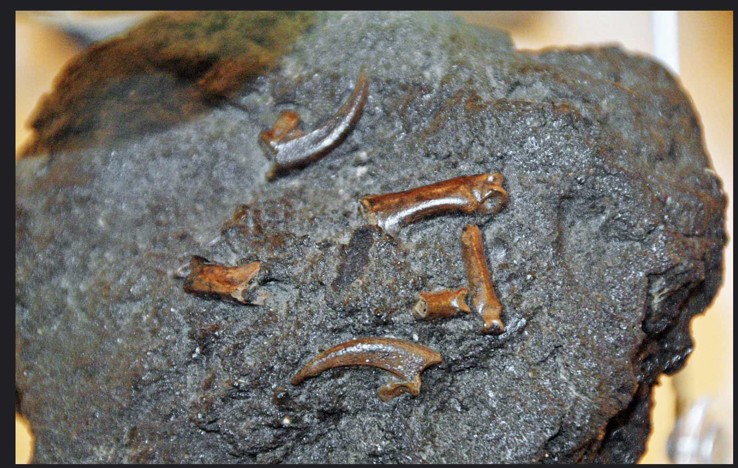 Fossil bird bones and talons in tar (Pleistocene; Kern County, California, USA)